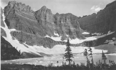 Title: Glacier National Park: Ice Berg Lake (Ice Lake) Creator: Hileman, T. J. Date: Unknown Description: Photo of an ice filled lake with snow fields on craggy mountains in the background. Written on verso: Kokwito Omuksikimi (Ice Lake). By photographer : Ice Berg Lake • I represent Montana State University Library and we are releasing this image into the Creative Commons. Keywords: glacier national park, mountains, snow, scenic views, montana, lakes Object ID: 247